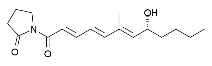 i drew this anyone can use it